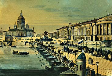 View on Blue Bridge (Saint Petersburg) and Petrovskaya Square. Colored engraving.